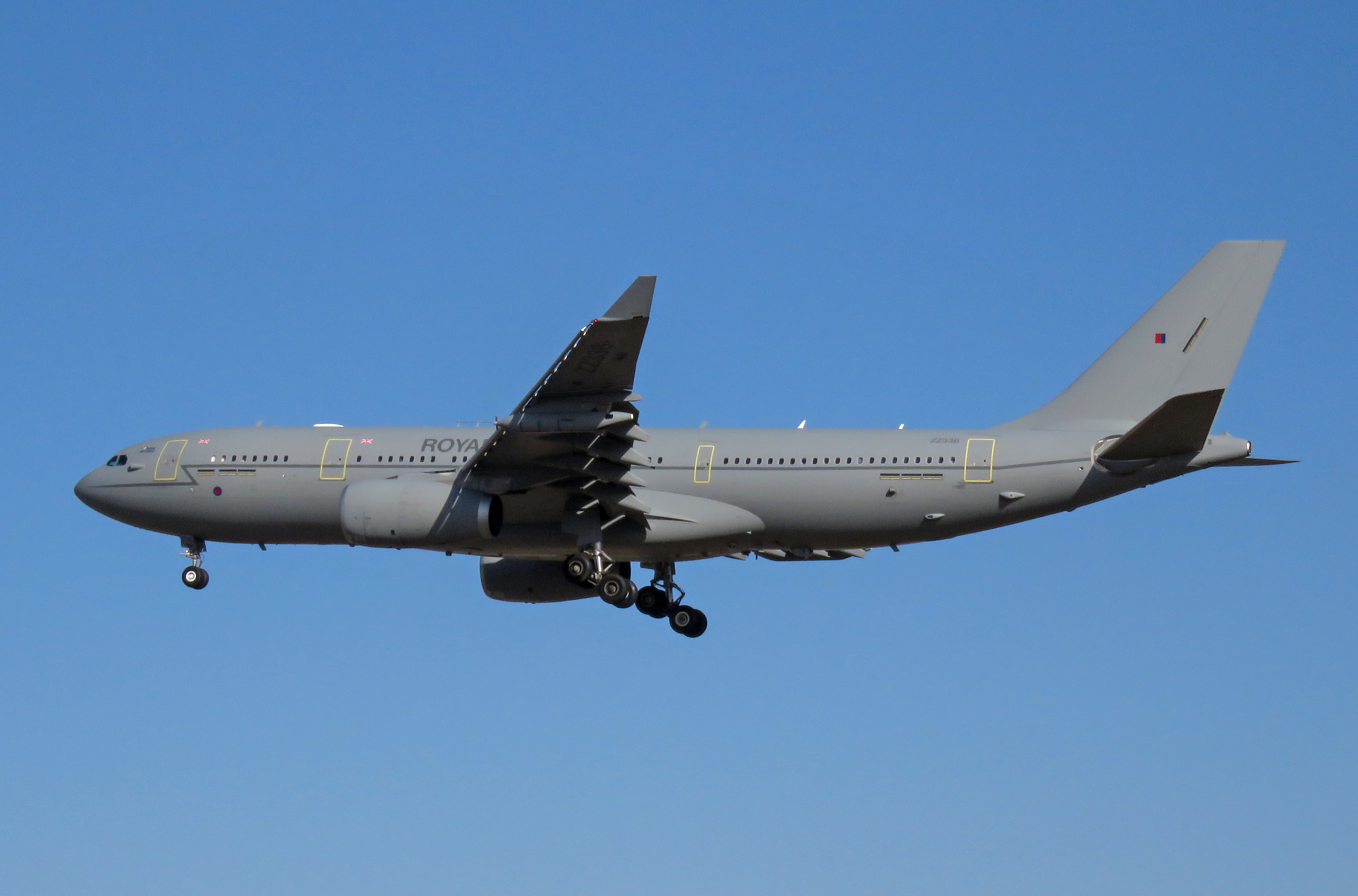 KRF25 from Wuhan, with Theresa May and a British delegation on board. I heard that she would meet PM Li Keqiang on 16:00, so I had to do nothing but to rush in a taxi, only to knock into a group of spotters.